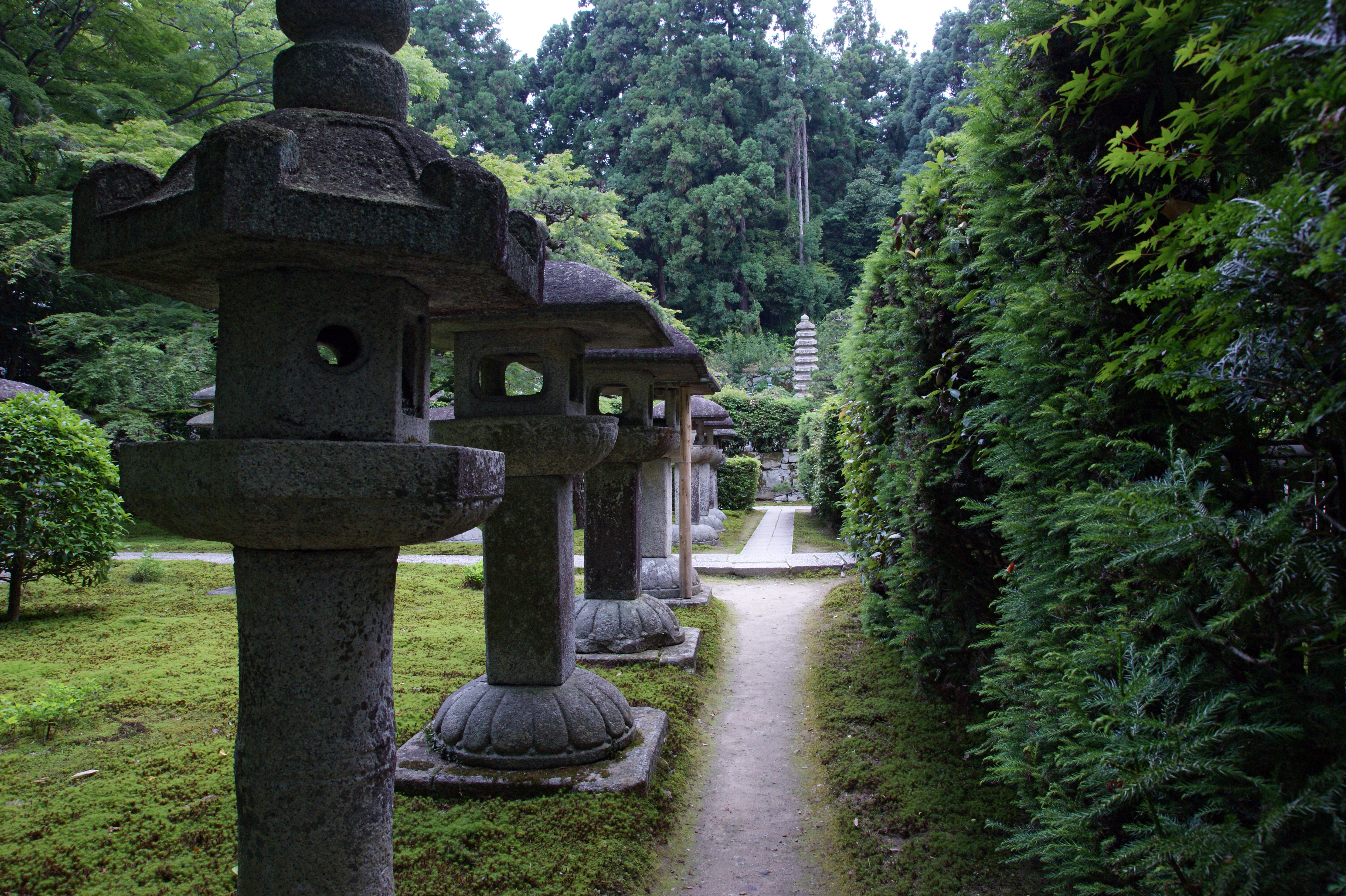 Jigendo in Sakamoto, Otsu, Shiga prefecture, Japan